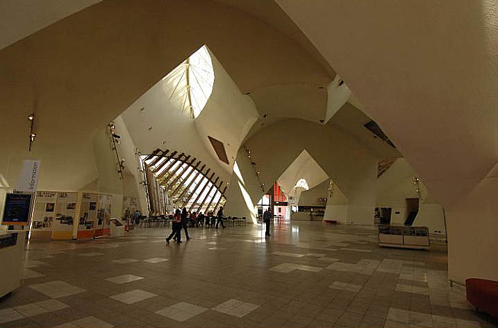 Central Hall of the NATIONAL MUSEUM OF AUSTRALIA in Canberra